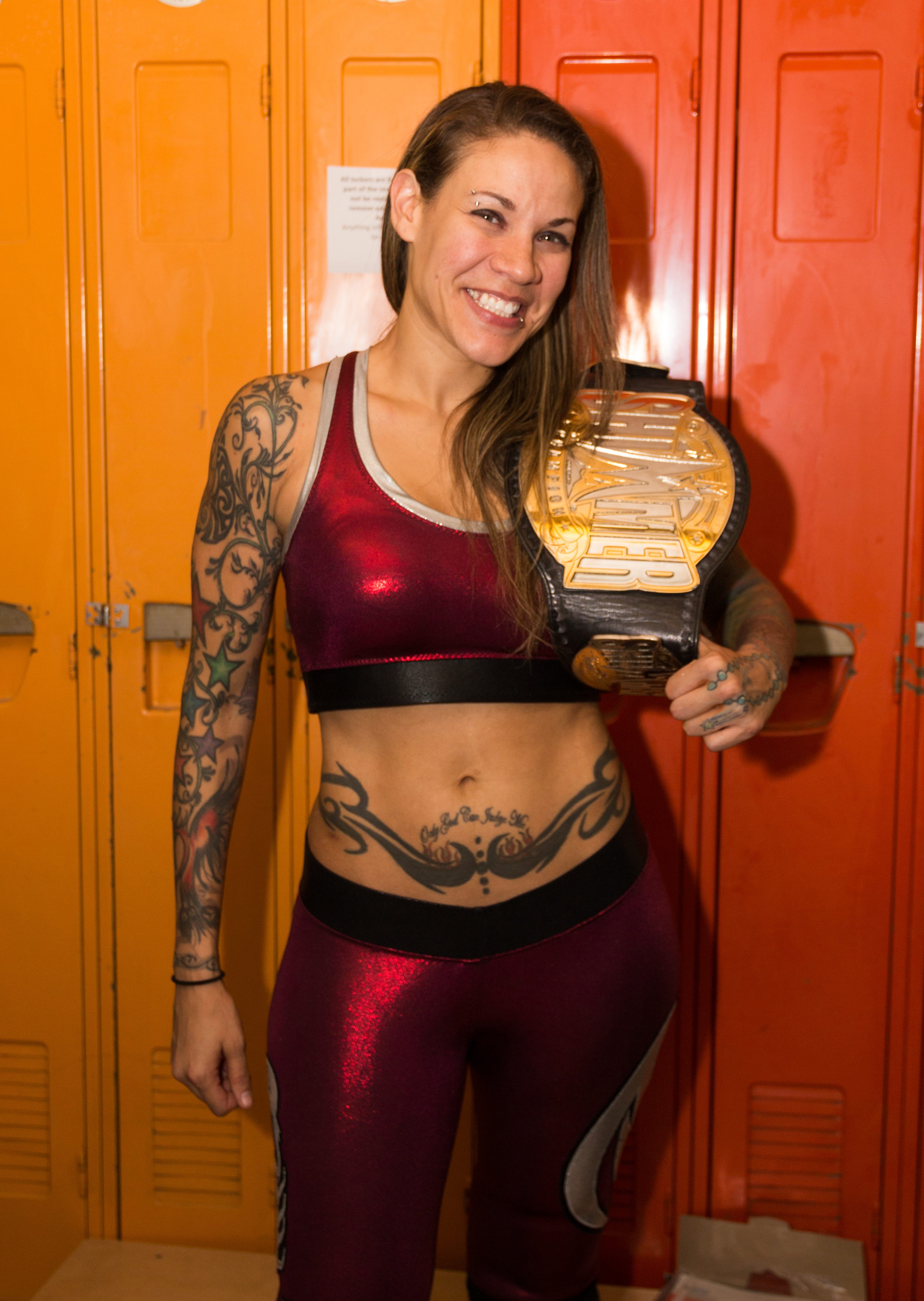 Independent wrestler Mercedes Martinez posing with the Shimmer Championship at intermission at Smash Wrestling's Canusa 2016 show in Etobicoke, ON